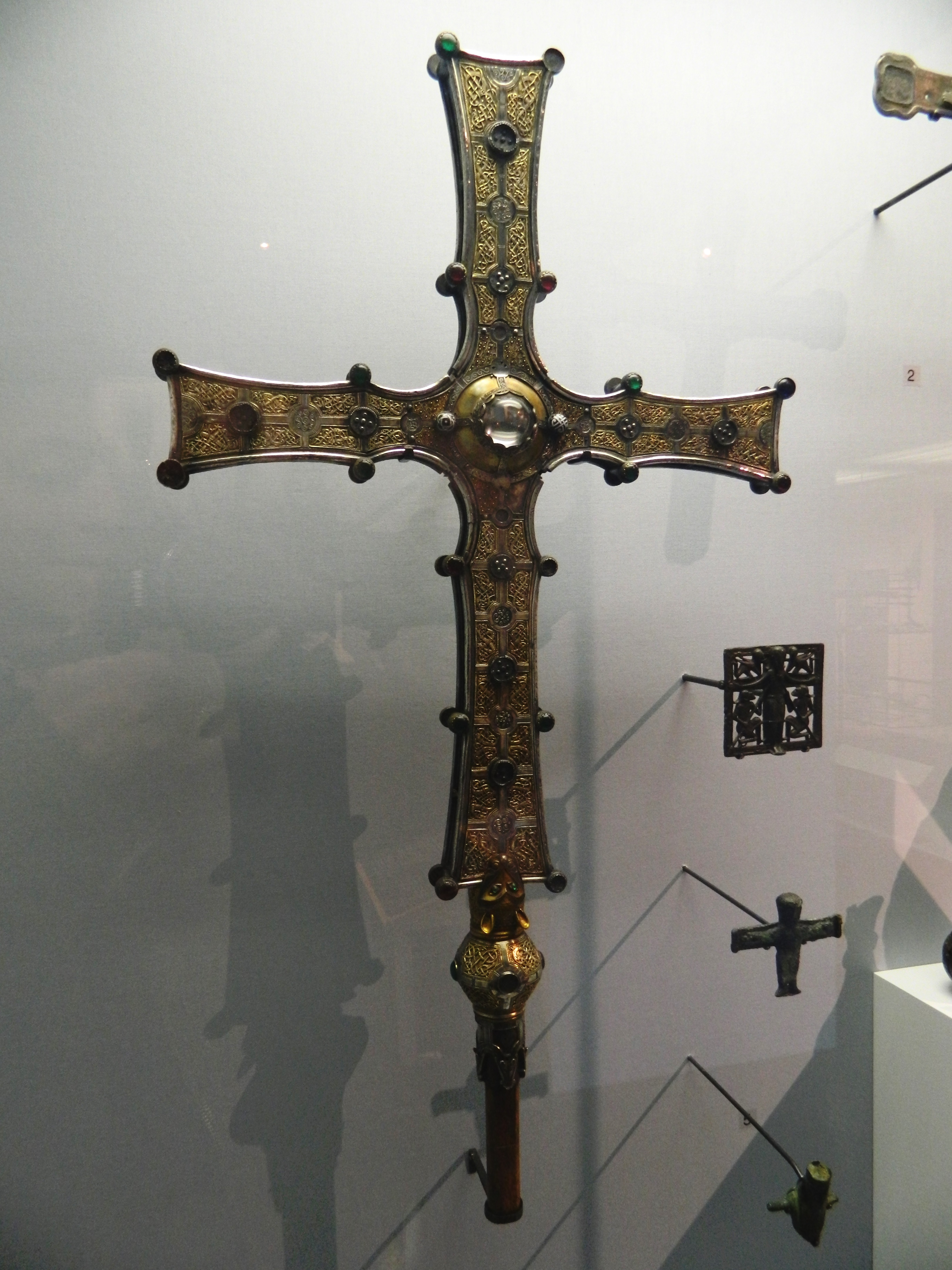 Replica of the 12th century Cross of Cong. Made by Edmond Johnson Ltd of Dublin, 1910. In the Ulster Museum.